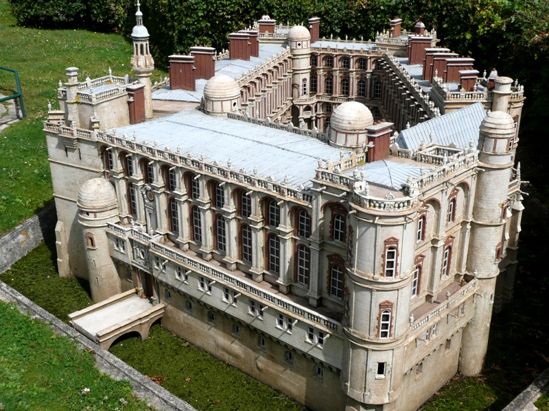 The Château de Saint-Germain-en-Laye, model